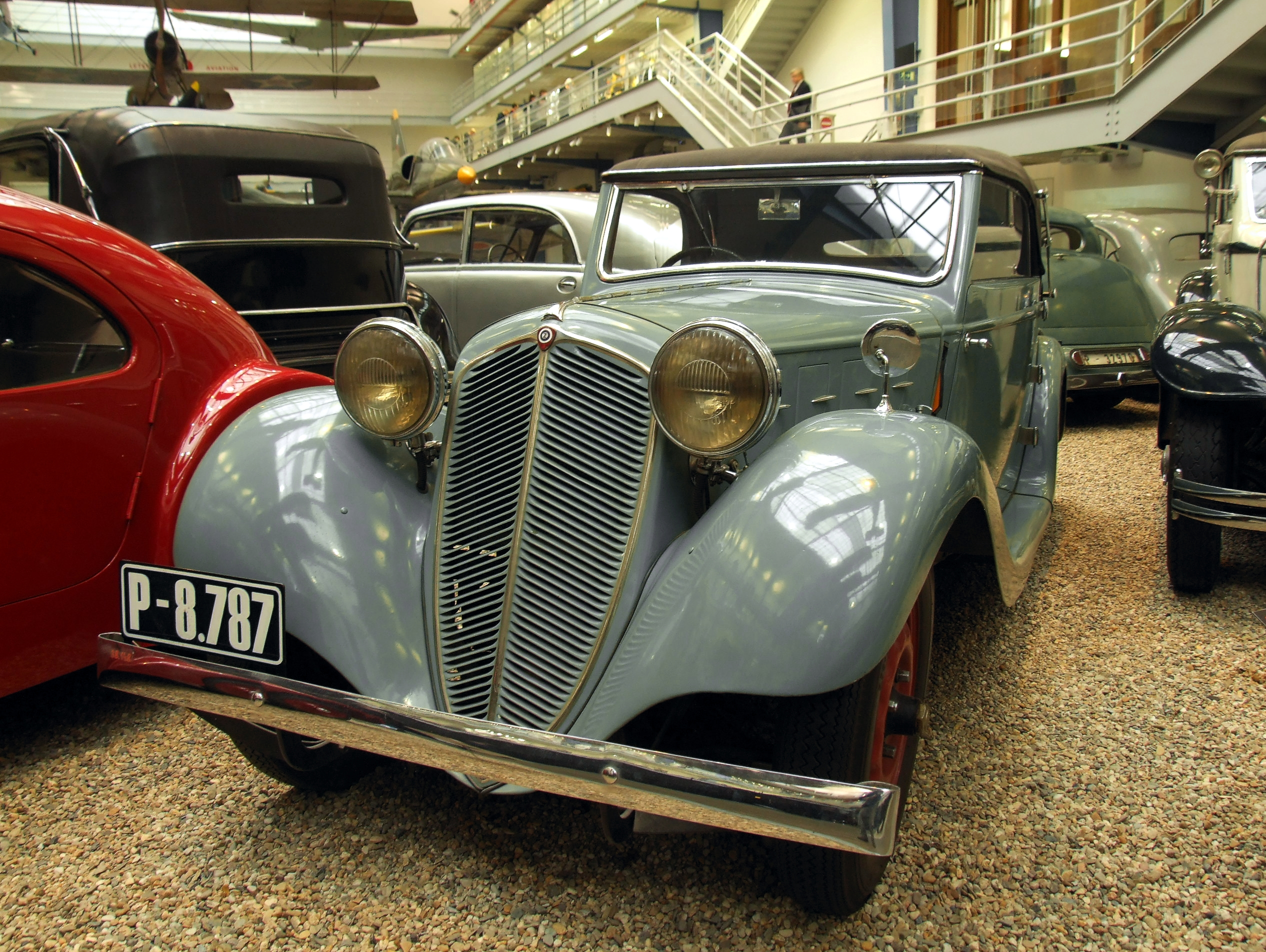 National Technical Museum in Prague - Z-4 car (from 1936)